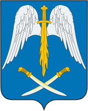 Arkhangelskoe (Krasnodar krai), coat of arms